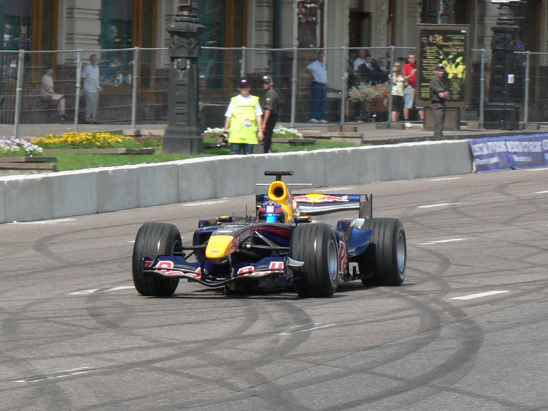 Mikhail Aleshin drives Red Bull RB2 at Moscow City Racing show